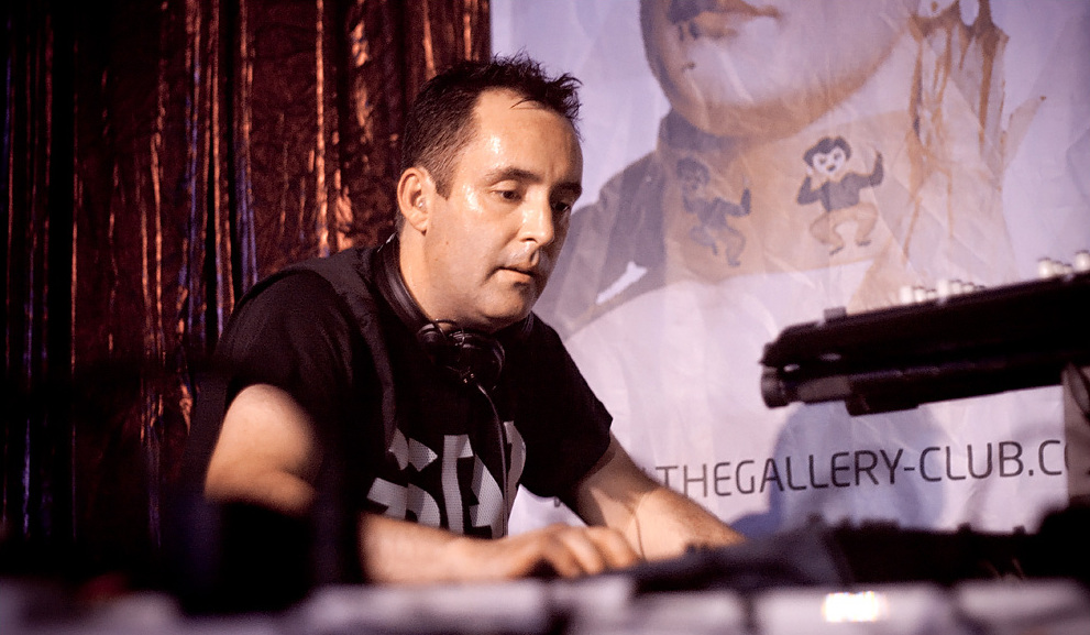 Steve Helstrip (The Thrillseekers) performing at the Gaudi Club.